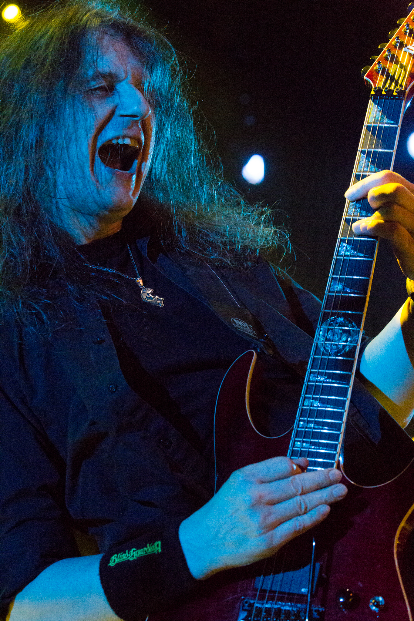 Blind Guardian performing at 70.000 tons of metal, january 2015